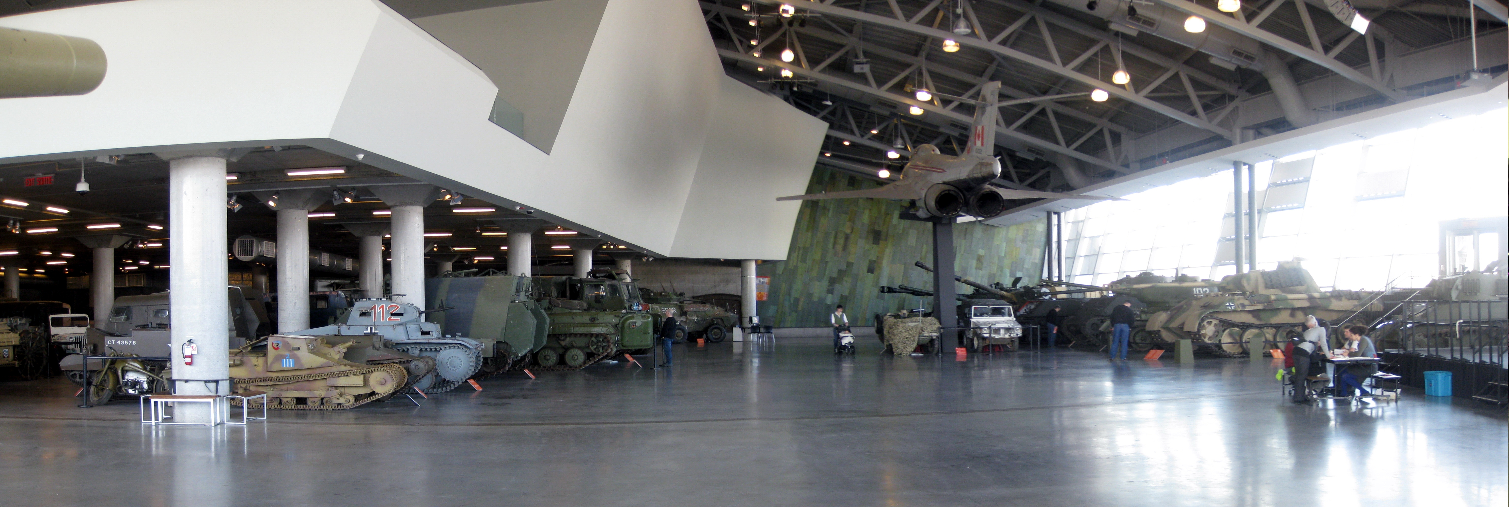 A stitched view of the LeBreton Gallery at the Canadian War Museum in Ottawa, Ontario.